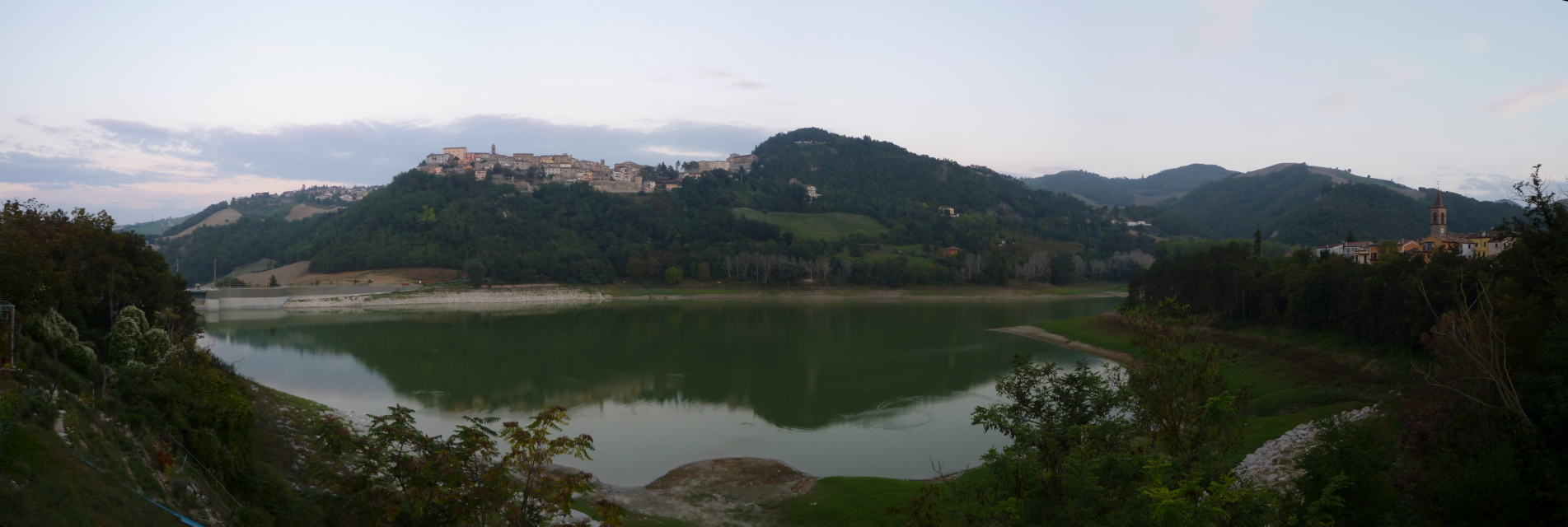 View of Mercatale Lake, Sassocorvaro, Pesaro-Urbino, Marche